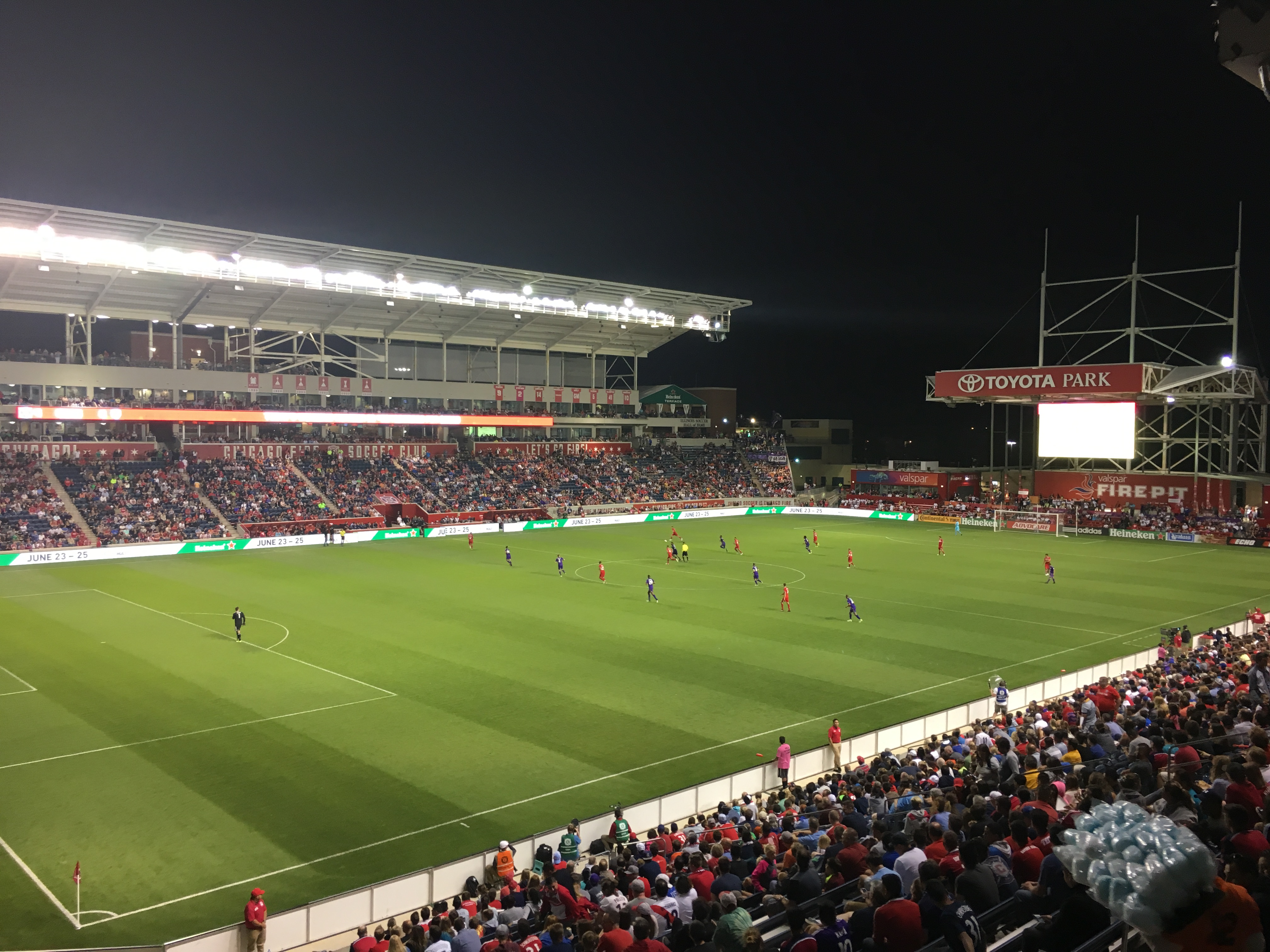 SeatGeek Stadium during an MLS game on June 24, 2017, between the Chicago Fire and Orlando City SC